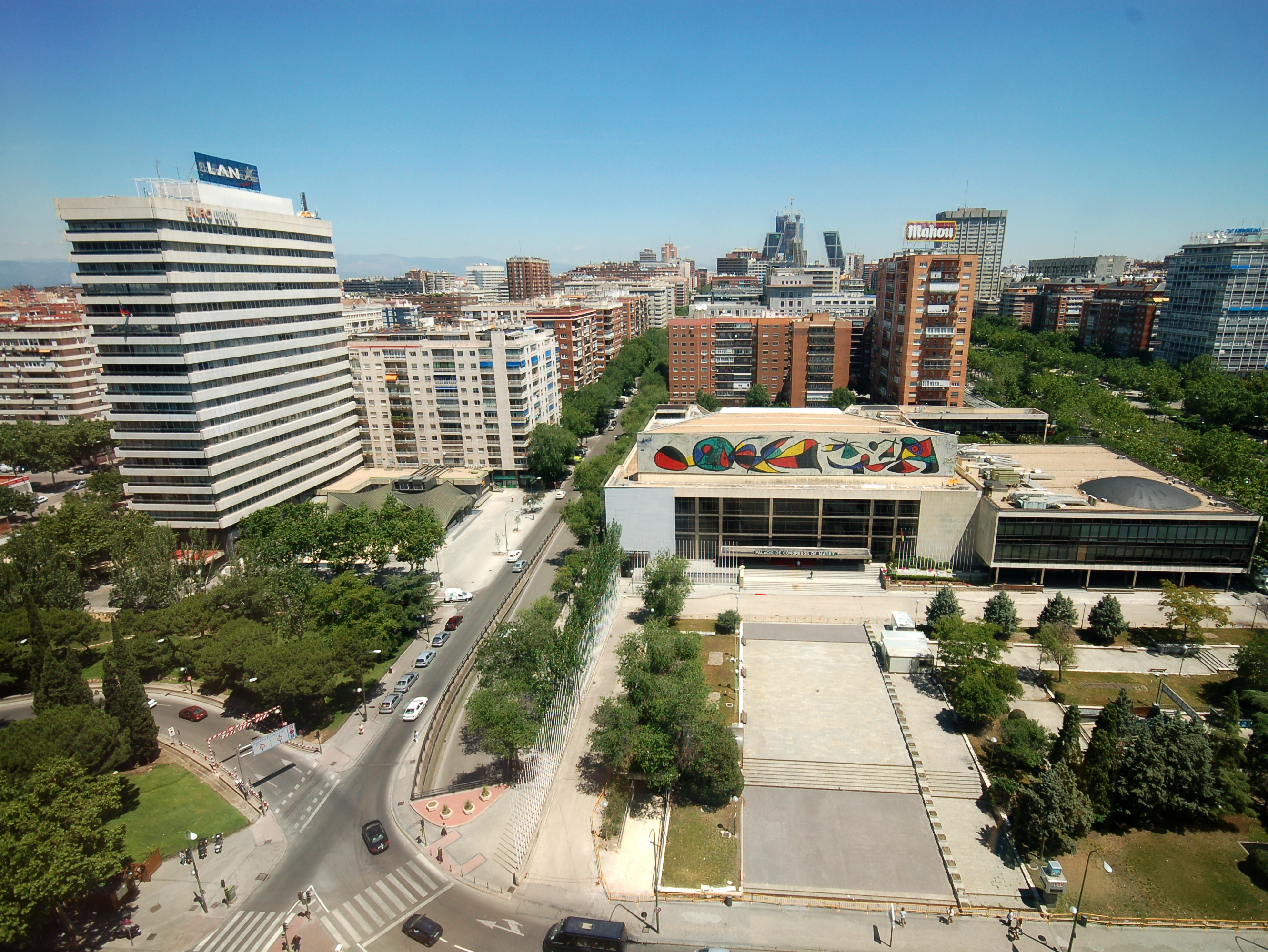 Palacio de Congresos y Exposiciones, a convention centre in Madrid (Spain) projected by architect Pablo Pintado Riba and built from 1965 to 1970. Mural was made in 1980 by Joan Miró (1893–1983). Image was taken from Edificio Masters 2, a building in AZCA business park.